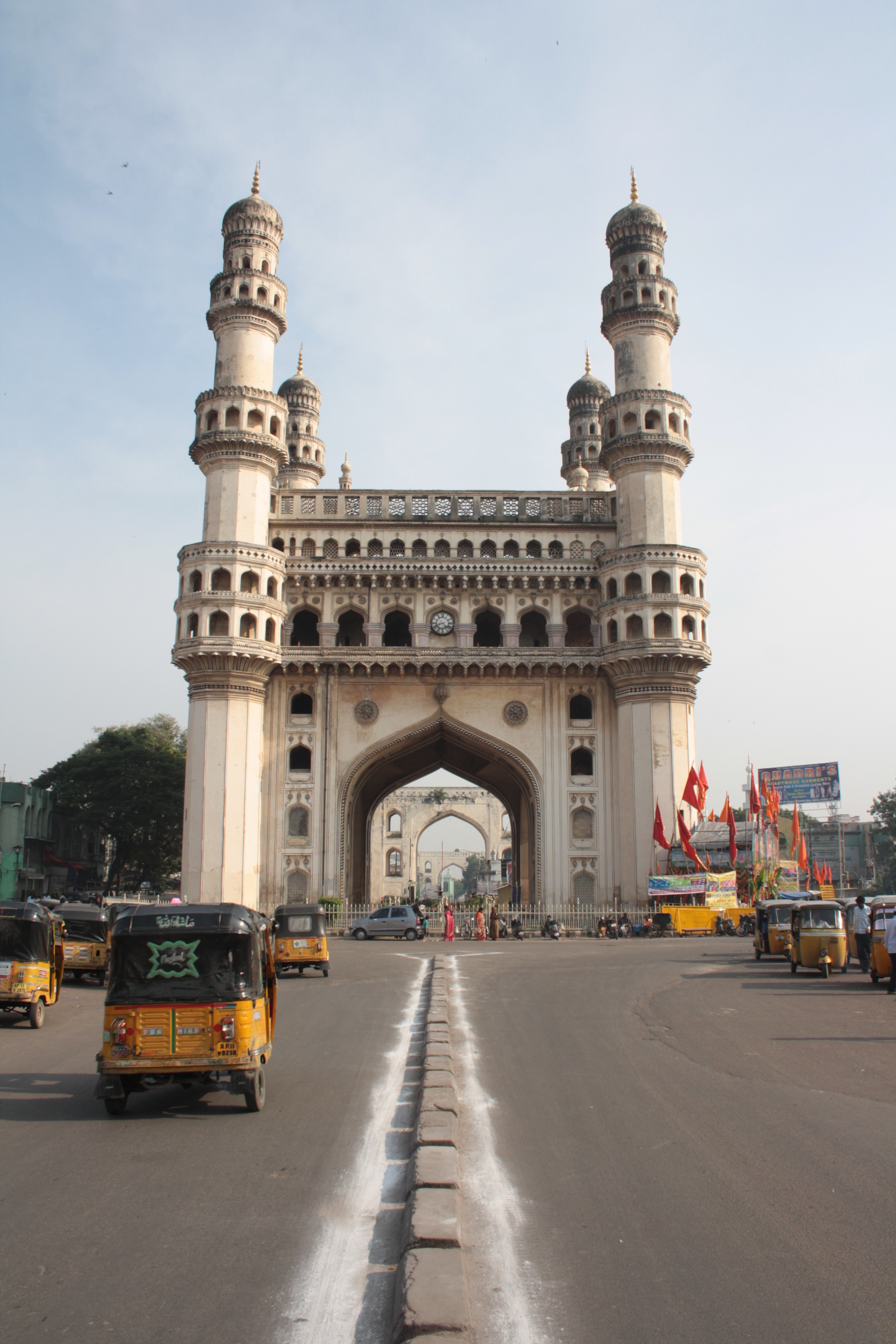 Charminar, Hyderabad